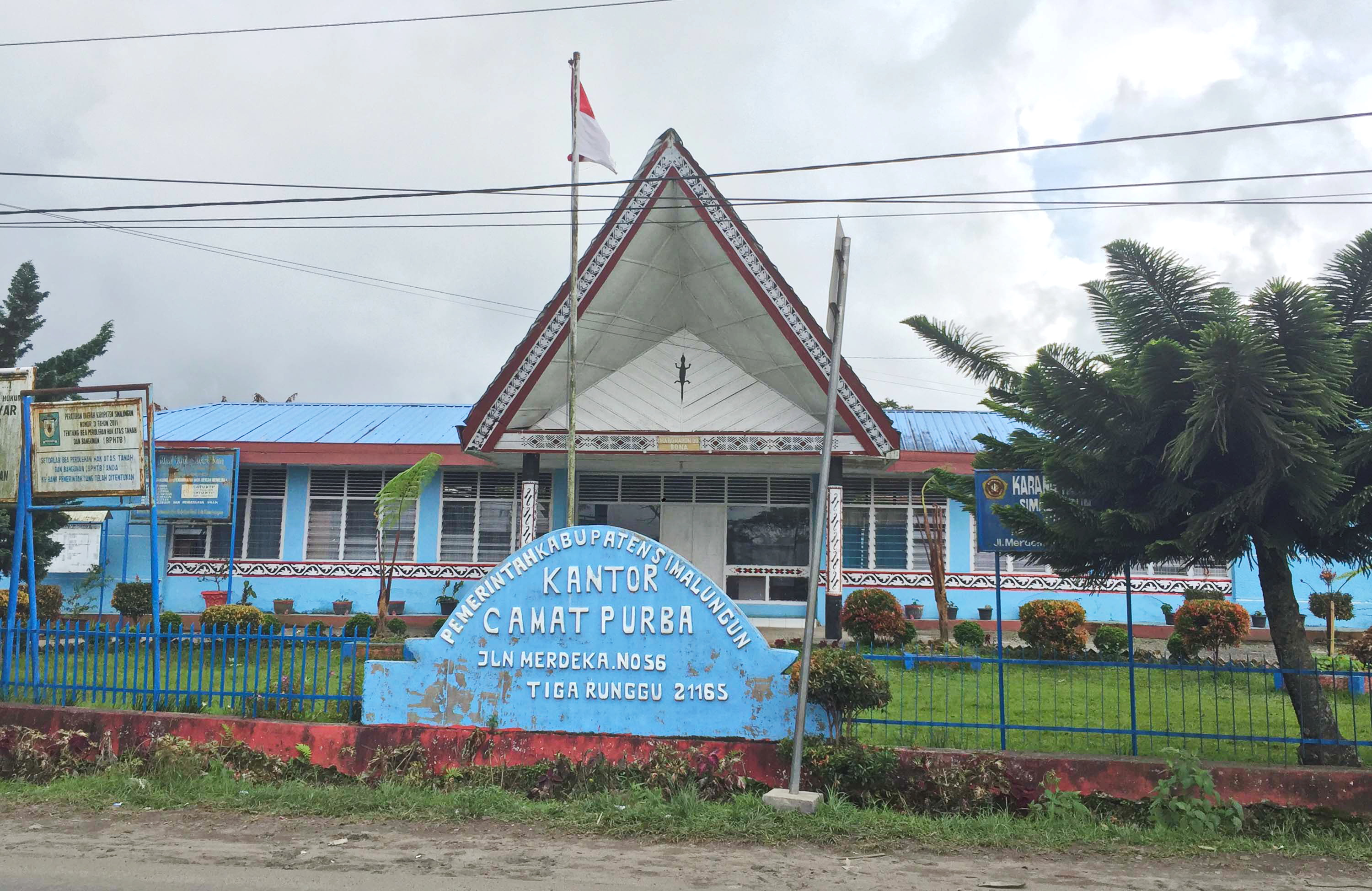 Office district of Purba, Simalungun, Indonesia.